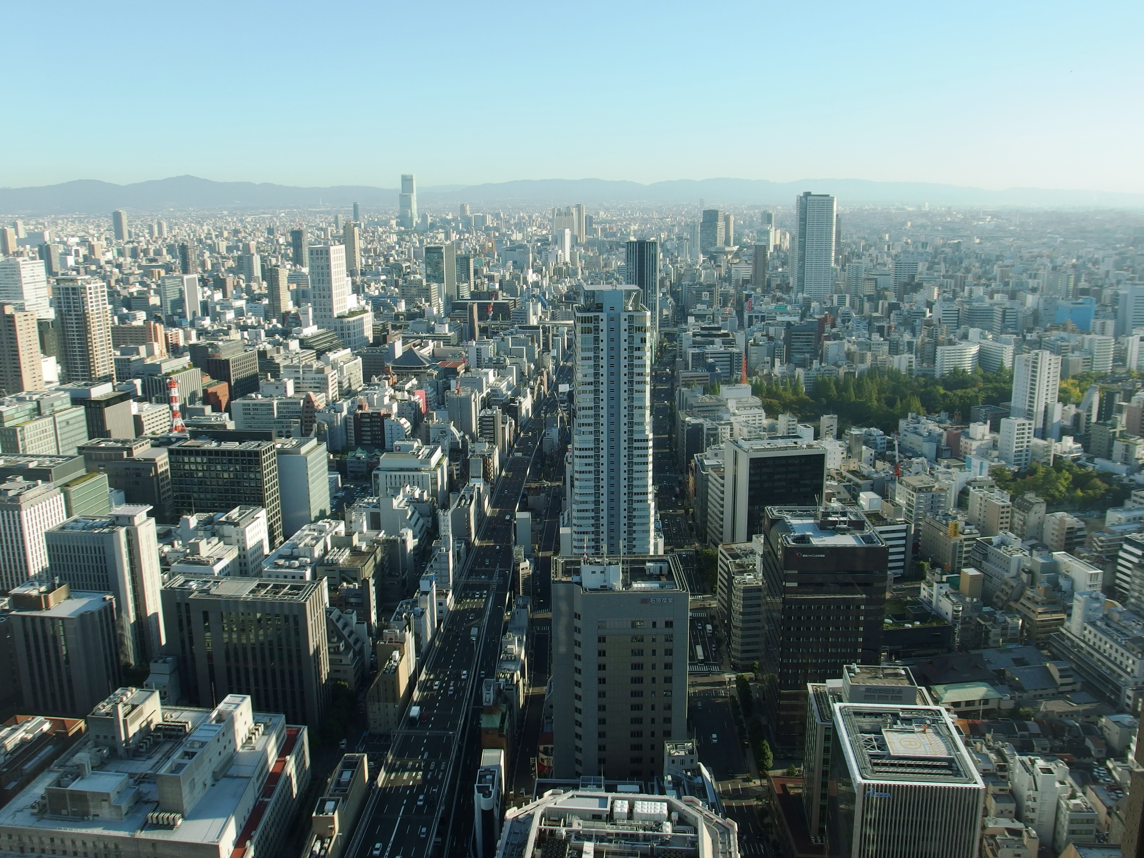 Viewed from the Nakanoshima Festival Tower in Osaka, Osaka Prefecture, Japan